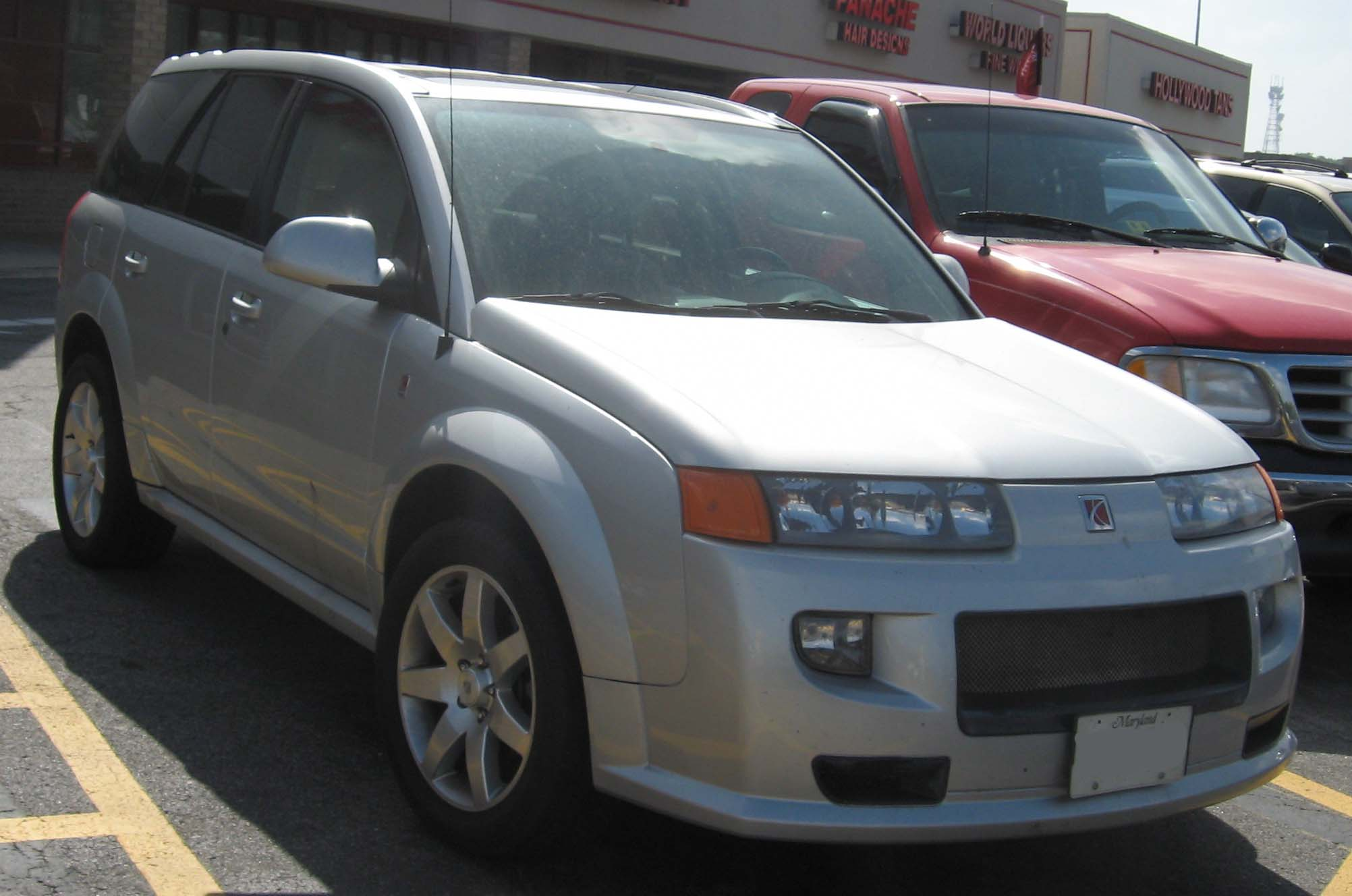 2004-2006 Saturn Vue photographed in Waldorf, Maryland, USA.